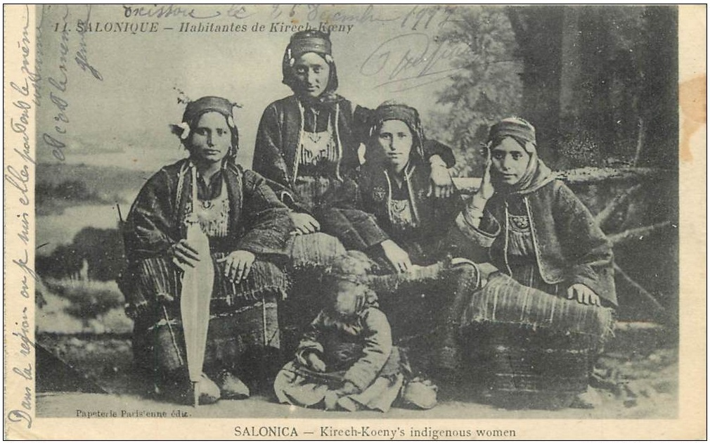 Kirech Koy Women by Paul Zepdji 1